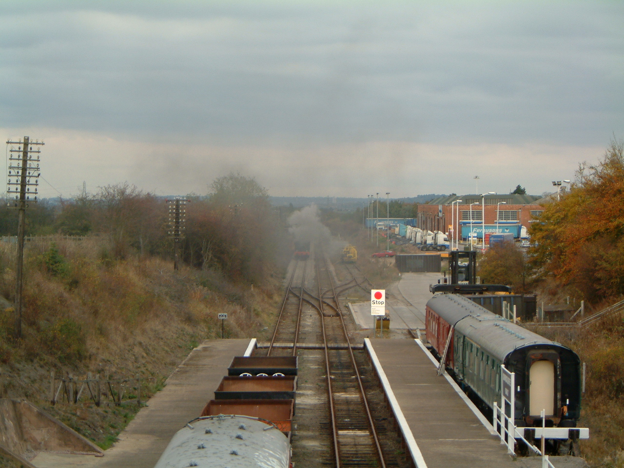 Rushcliffe Halt looking North towards Ruddington. Taken by me John Beniston October 2003